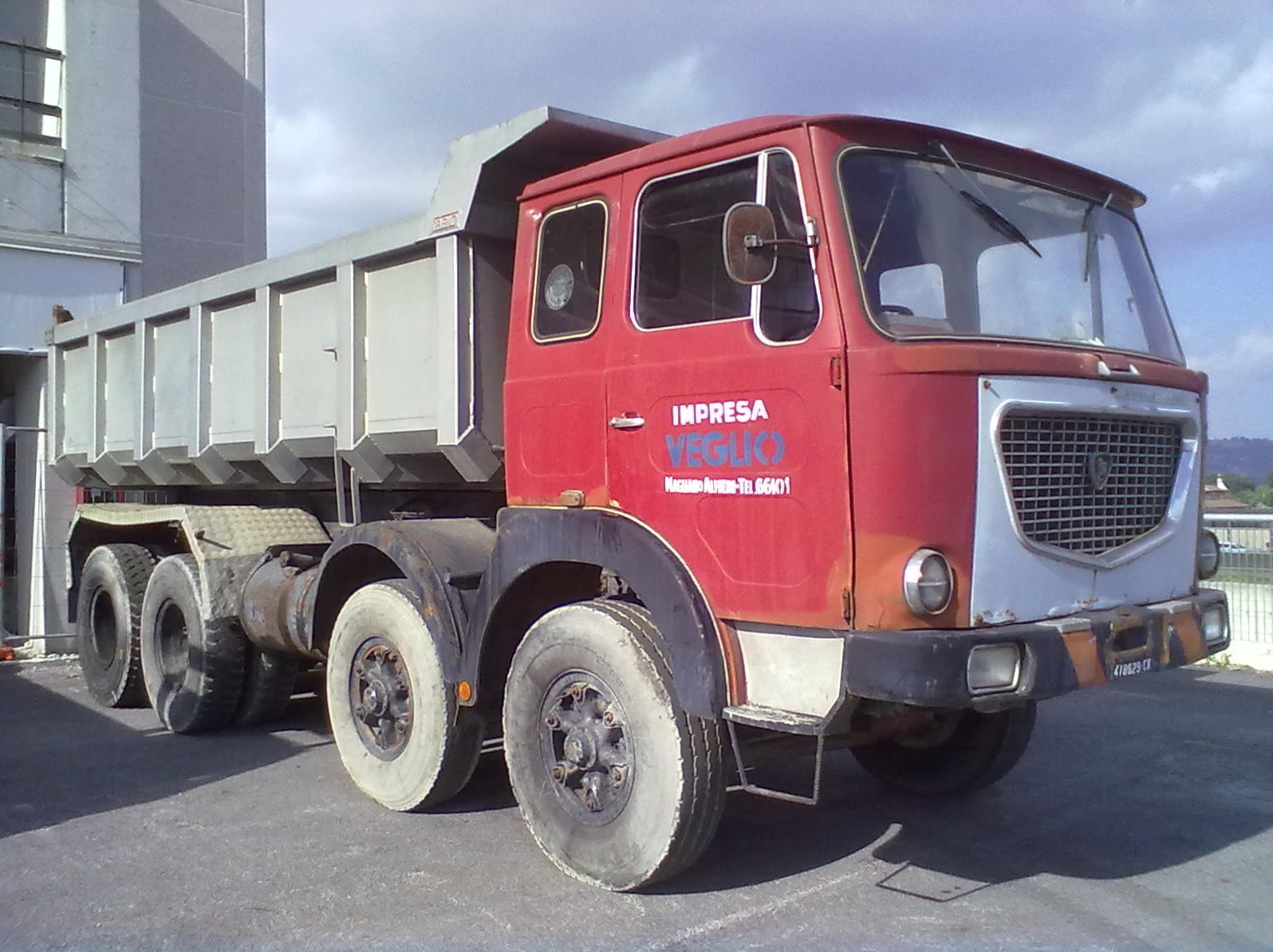 Lancia Esagamma E in Avellino (Italy)